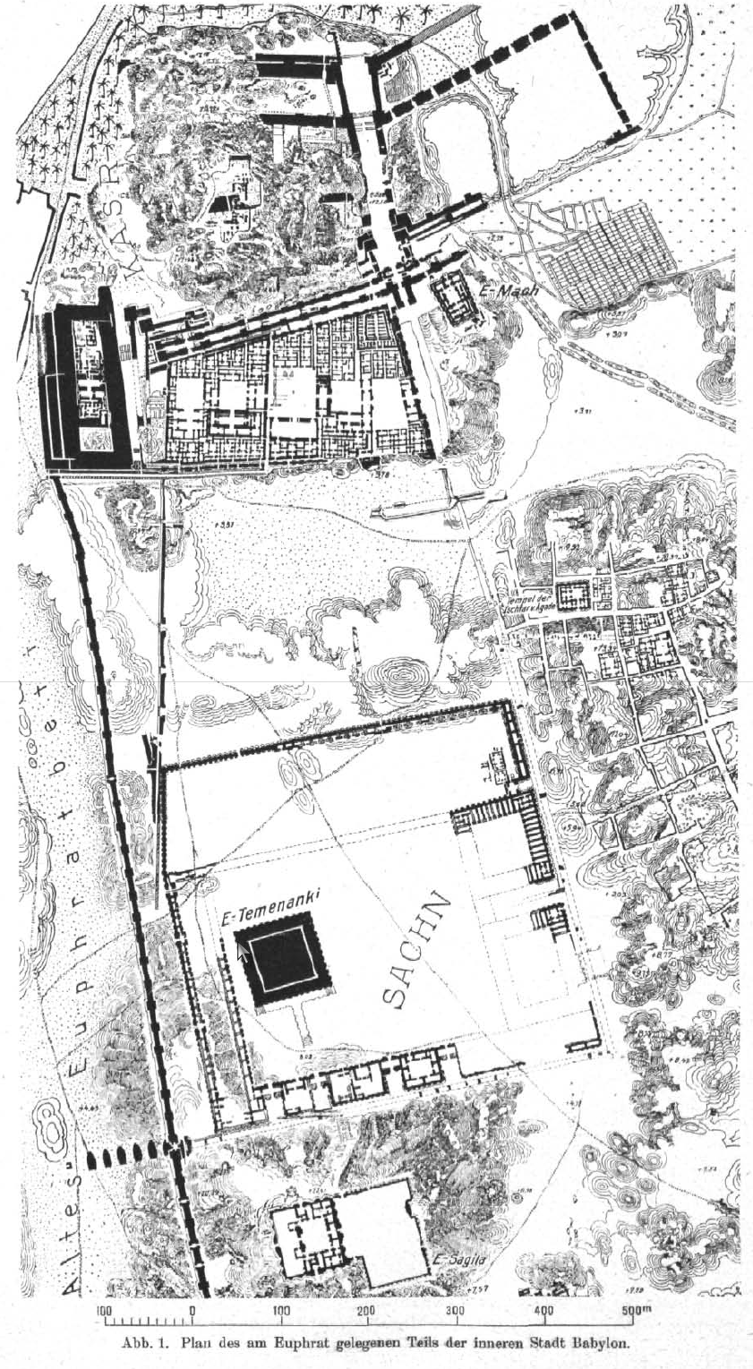 Plan of the Euphrates part of the inner city of Babylon